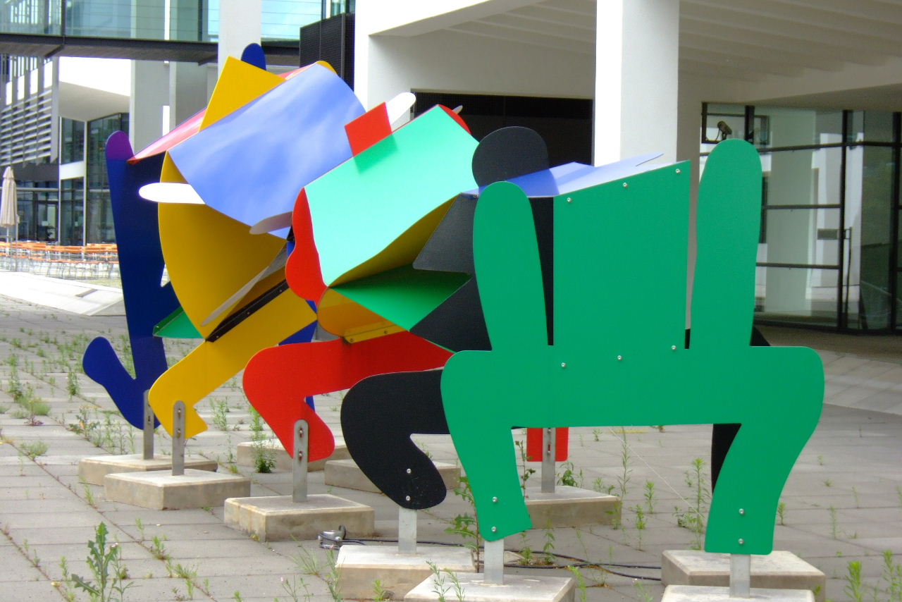 Comunicación cruzada, sculpture made by Manuel Marin on the outside areas of the building of the Deutsche Welle (Schürmann-Bau) in Bonn.